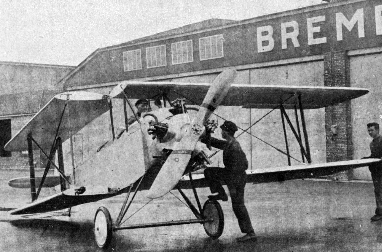 Focke-Wulf S.24 photo from L'Aéronautique September,1929